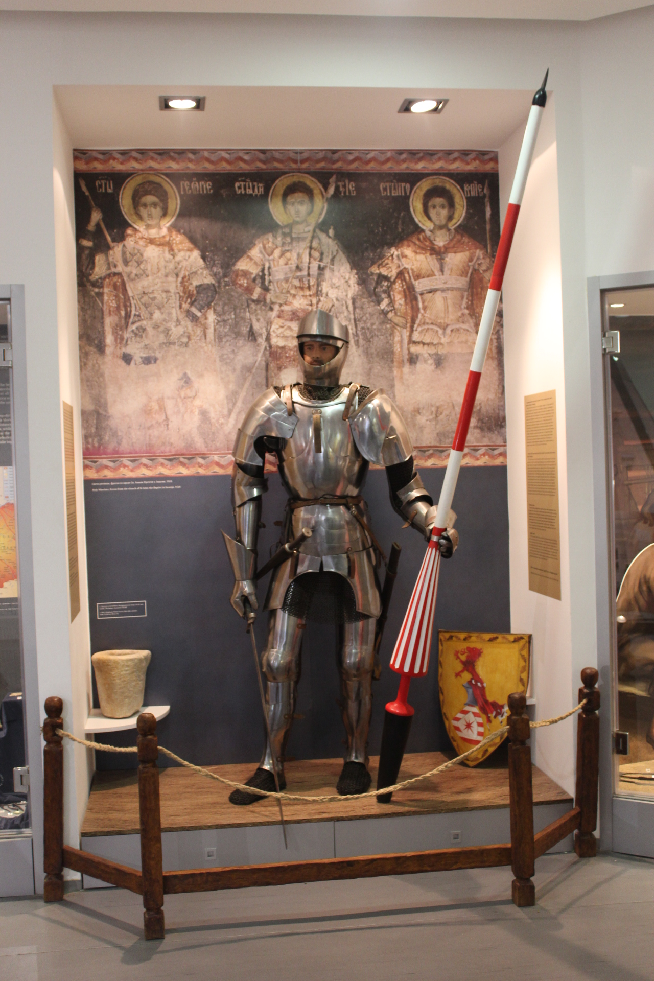 Medieval full armor from the mid-15th century, the one that could be worn by Nikola Skobaljić. Srpski (latinica): Srednjovekovni puni oklop iz sredine XV veka, onakav kakav je mogao nositi i Nikola Skobaljić. U levoj ruci je viteško koplje.